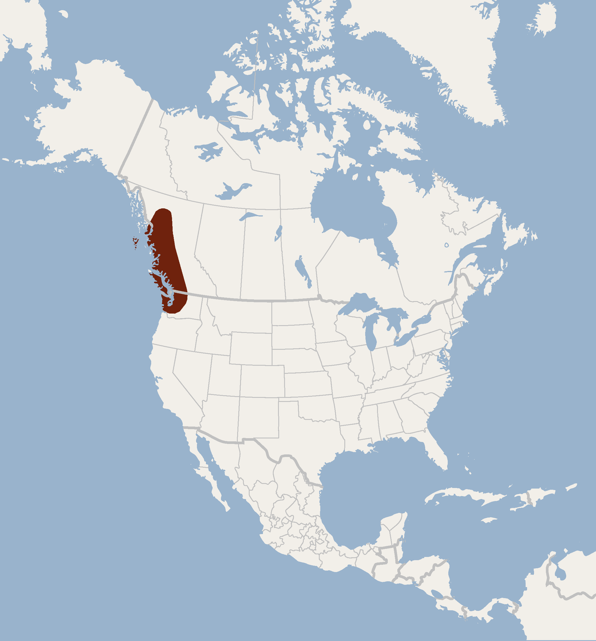 Geographical distribution of Myotis according to Kays & Wilson, 2009